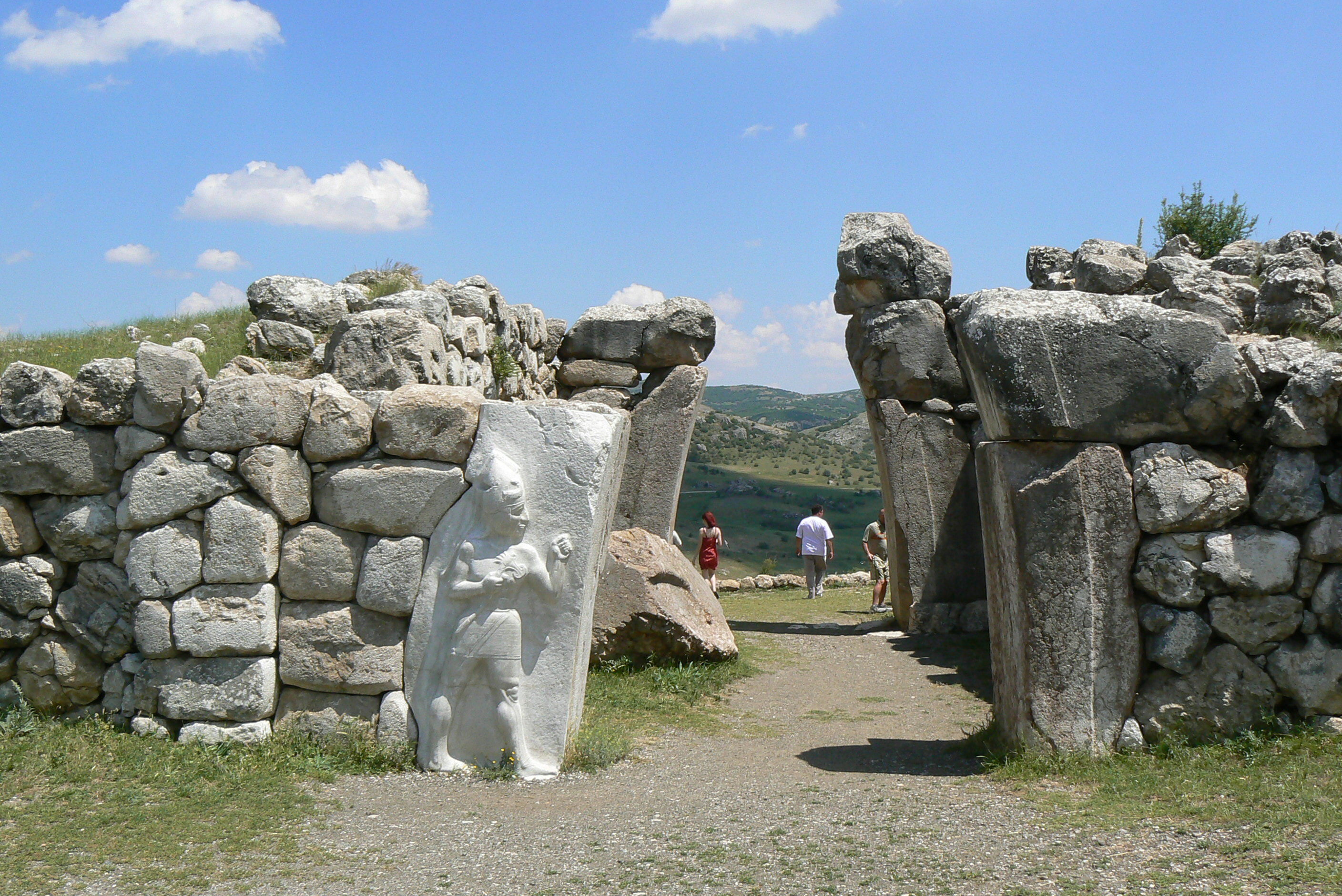 The King's Gate, Hattusa, Turkey